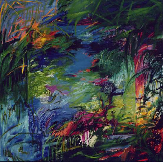 Danièle Rochon, Arcadia, 1991, oil on canvas, 180 cm x 180 cm